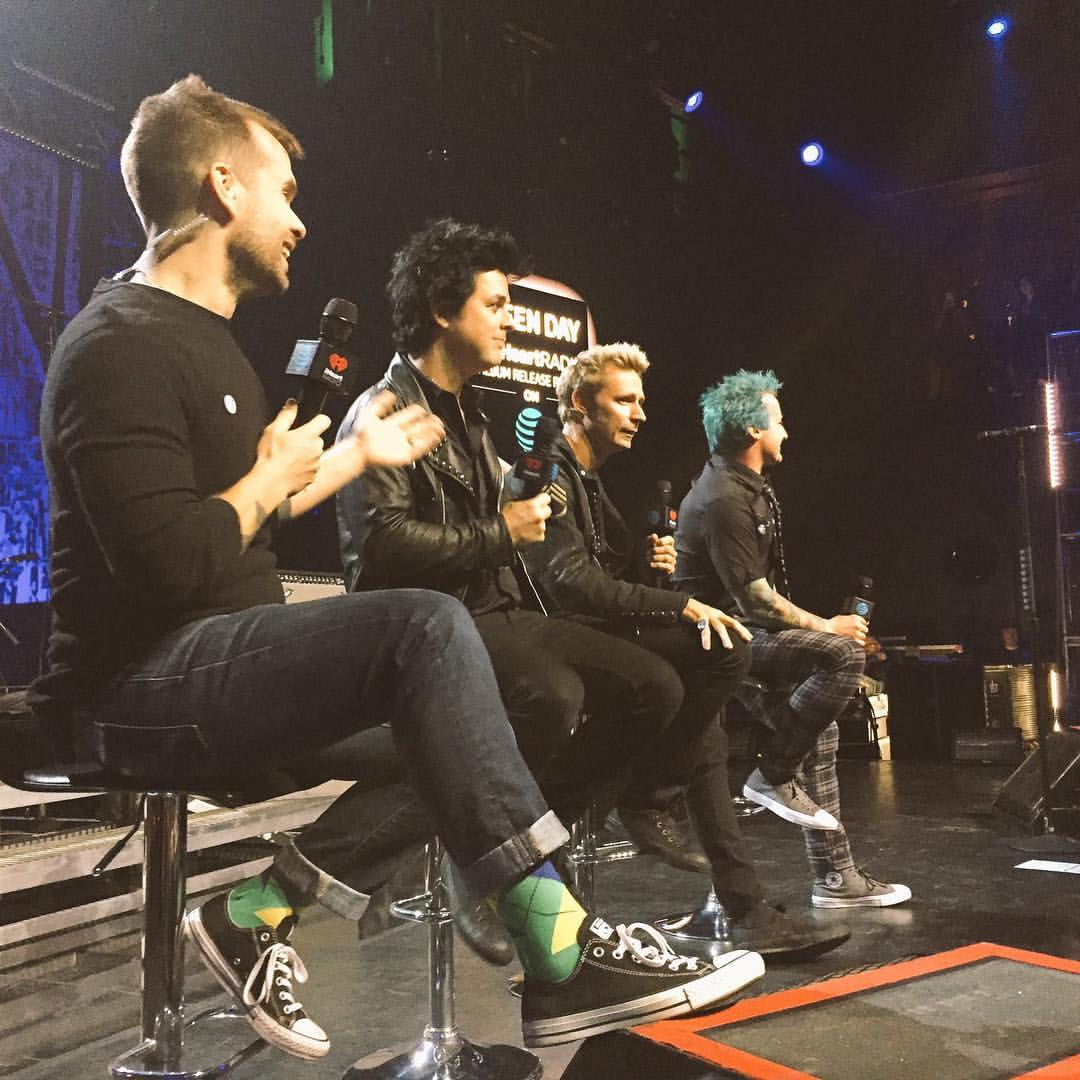 With Green Day